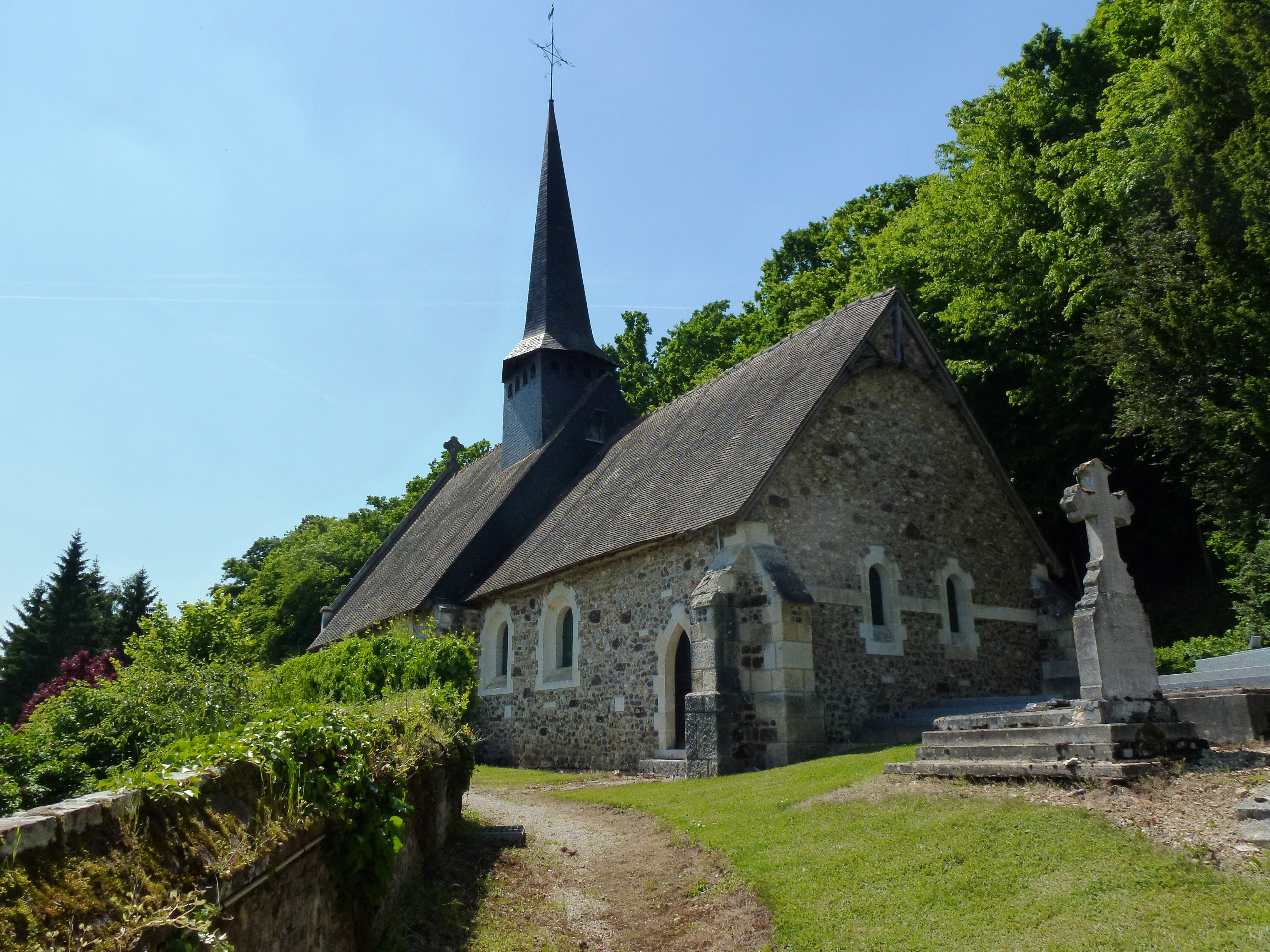 Ajou (Eure, Fr) église Notre-Dame